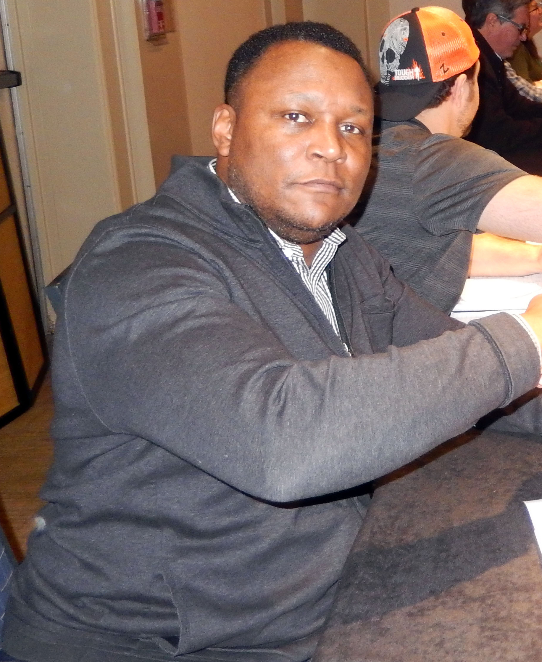 Detroit Lions NFL Rushing Great. MAB Pinstripe, Hasbrouck Heights, NJ, 1/26/2019.